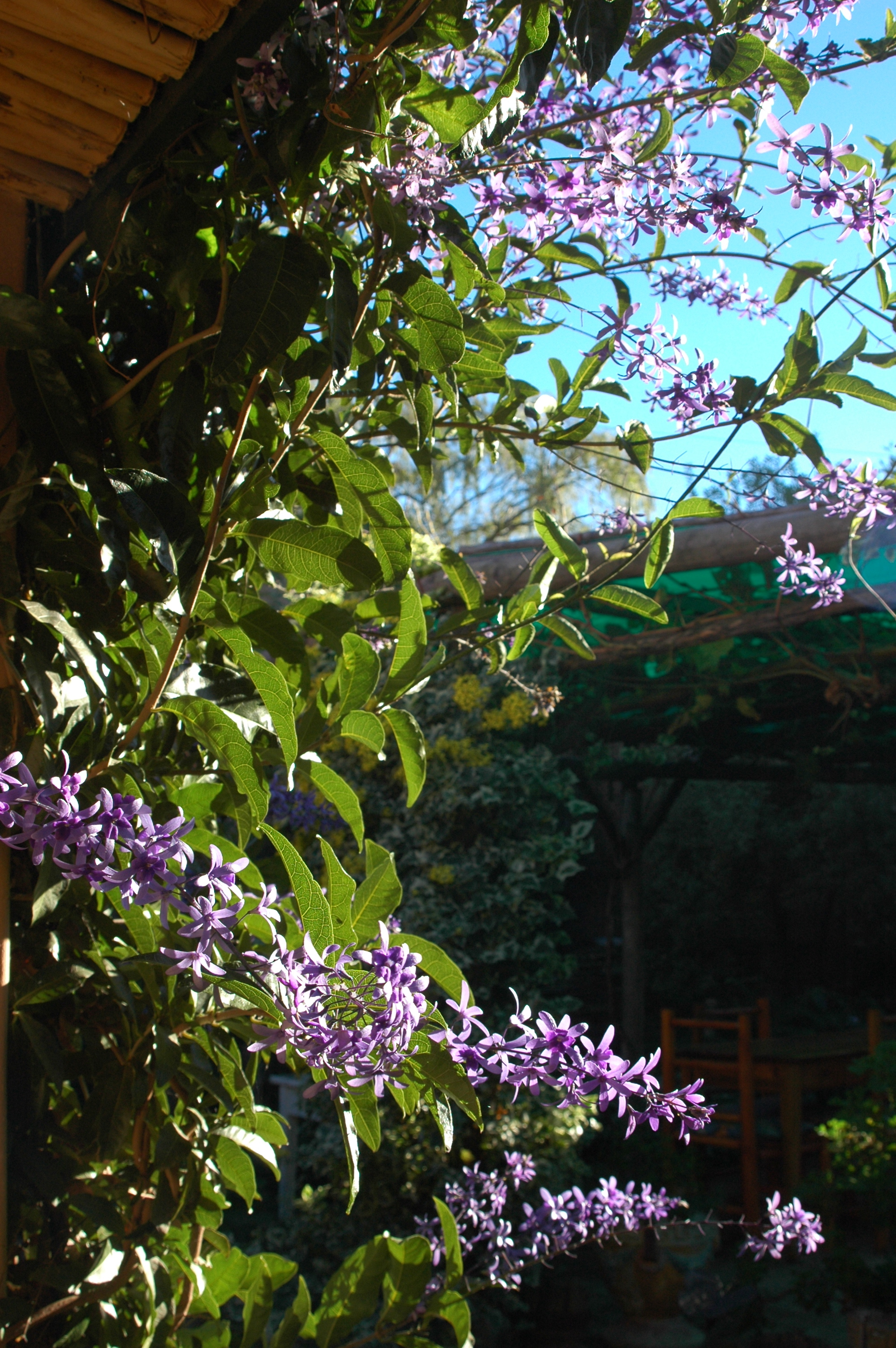 Petrea volubilis. Photographed in a garden in South Africa.